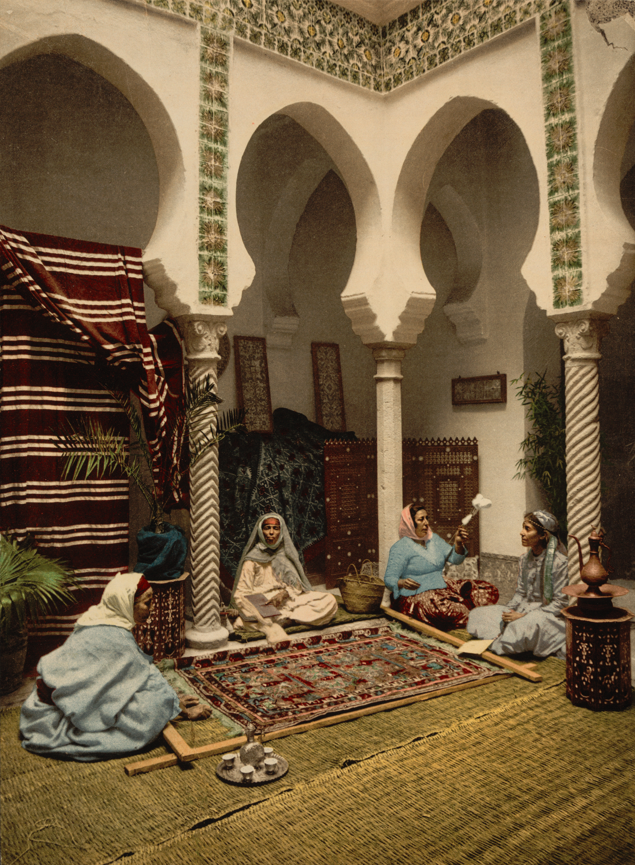 Vintage photochrom print. Source caption "Moorish women making Arab carpets, Algiers, Algeria".